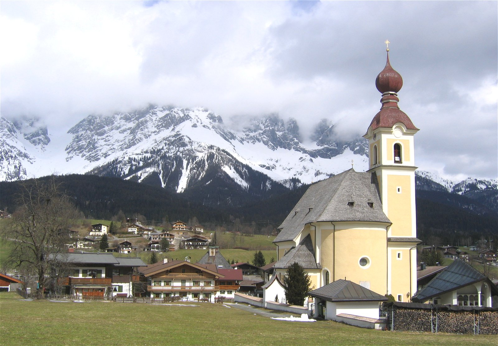 Going am Wilden Kaiser, Holy Cross Parish Church from south west.